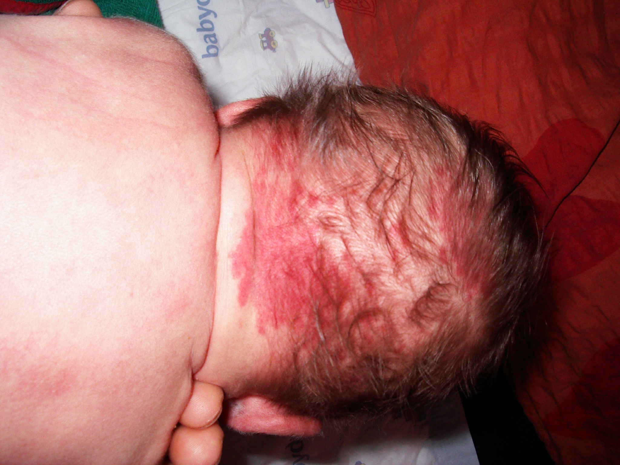 birthmark commonly known as "stork bite" or "angels kiss"